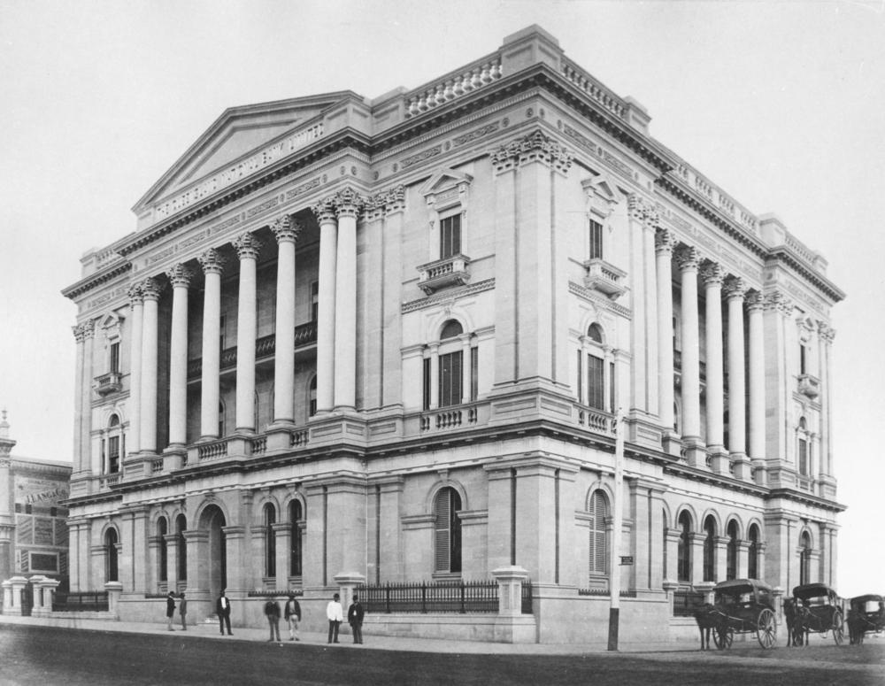 Queensland National Bank building, Brisbane, ca. 1885. Now the National Bank, situated on the corner of Queen and Creek Streets. The foundation stone was laid in 1881. The main structure is of sandstone from Murphy's Creek, columns and carved work above are of Oamaru limestone. The architect was F. G. D. Stanley and the architecture is Italian Renaissance. (Description supplied with photograph.).